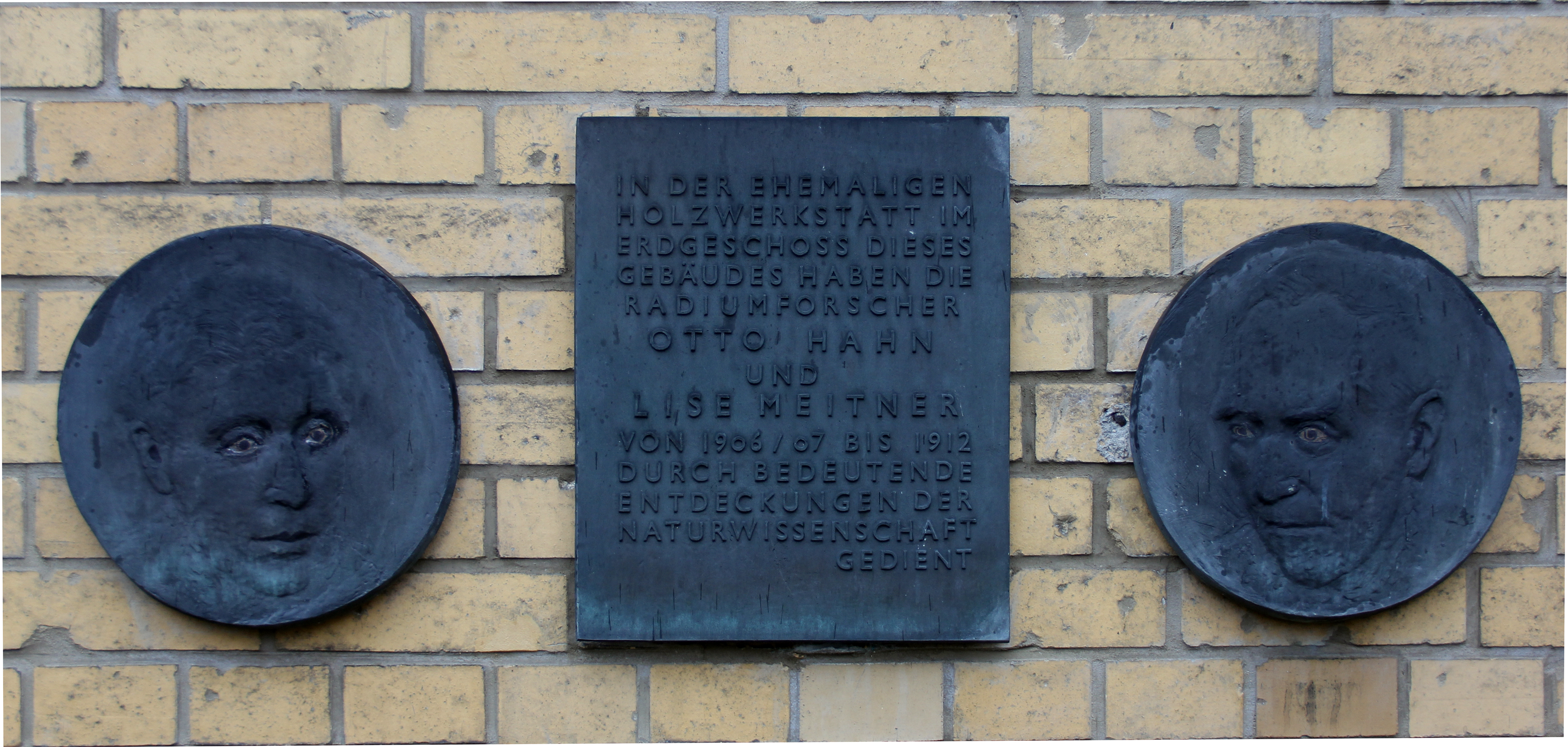 Memorial plaque, Otto Hahn and Lise Meitner, Hessische Straße 1, Berlin-Mitte, Germany